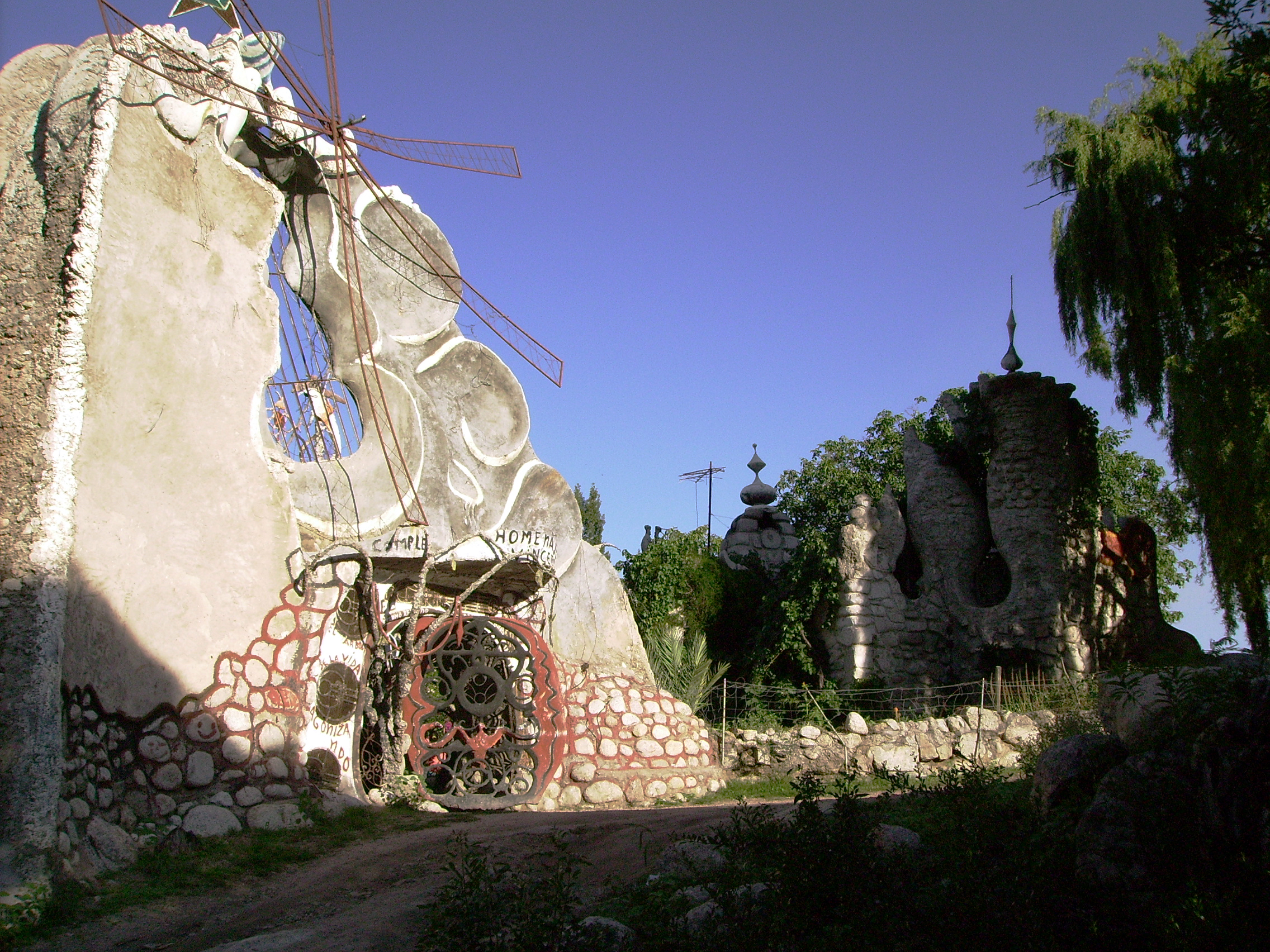 PENTAX Image